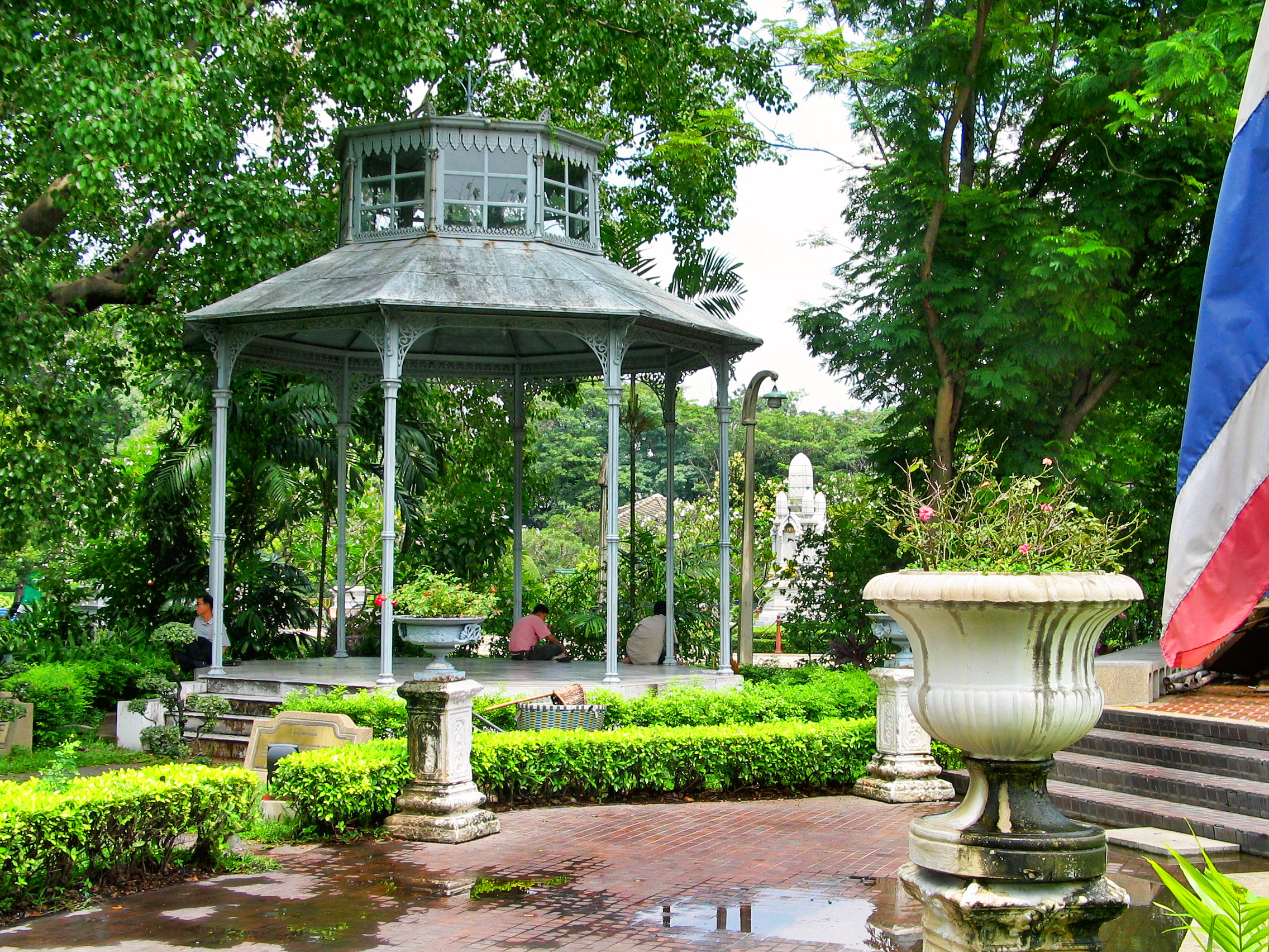 Pavilion in Saranrom Park, Phra Nakhon district, Bangkok.